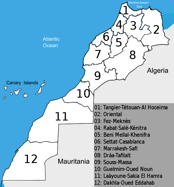 Morocco provinces - Legally instated, and recognized internationally